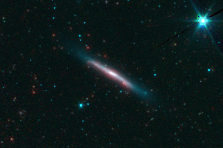 Color rendering is done by by Aladin-software (2000A&AS..143...33B.)